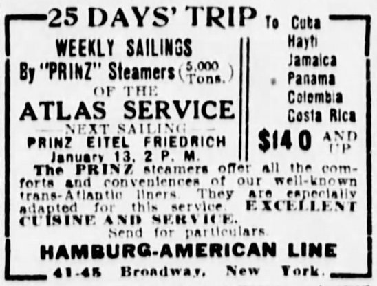 An Atlas Line advertisement from January 1912 for 25-day winter tours by SS Prinz Eitel Friedrich and other ships of the Line.